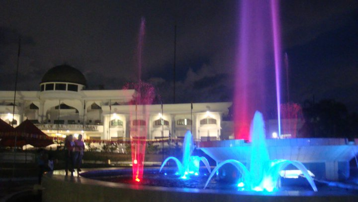 Isulan